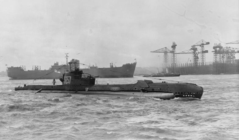 British S class submarine HMSM SAGA underway.